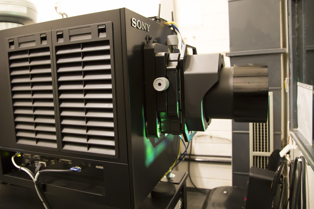 Sony SRX-R515P - digital Film Projector, SKF